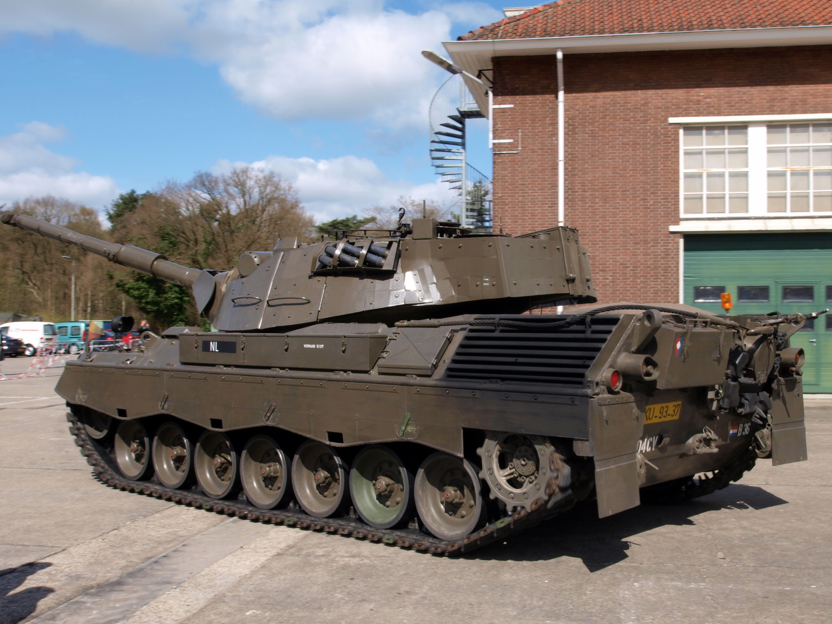 Dutch army Leopard I, B36 of 104CV, KU-93-37